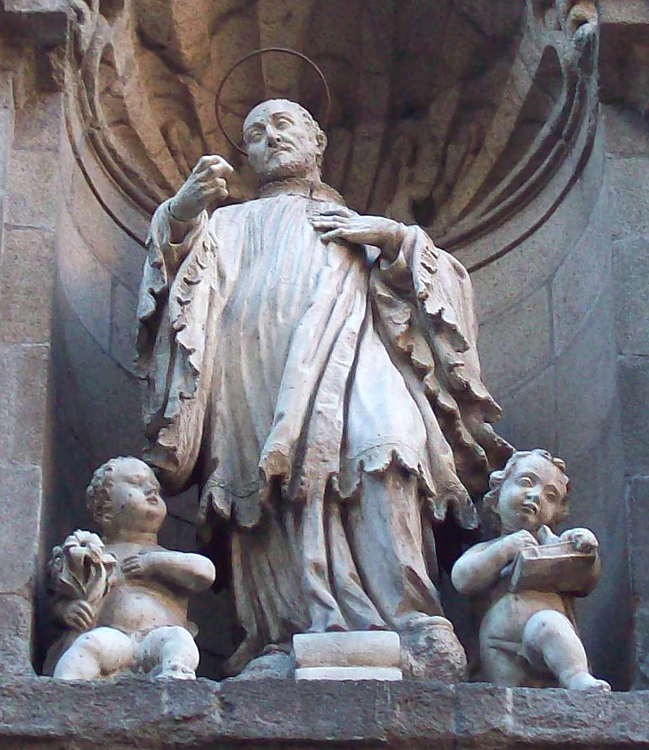 Depicted person: Saint Andrew Avellino